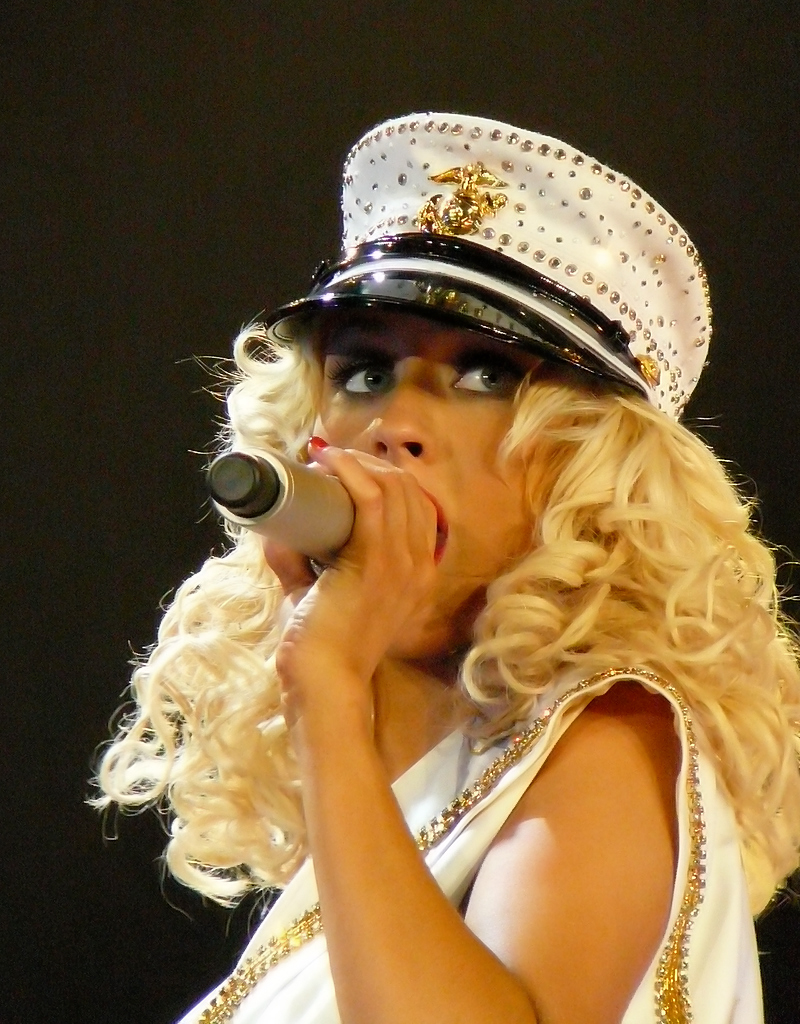 Christina Aguilera singing "Candyman" on her tour.